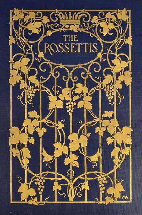 Cover of Elisabeth Luther Cary's 1900 book The Rossettis, designed by Margaret Neilson Armstrong.